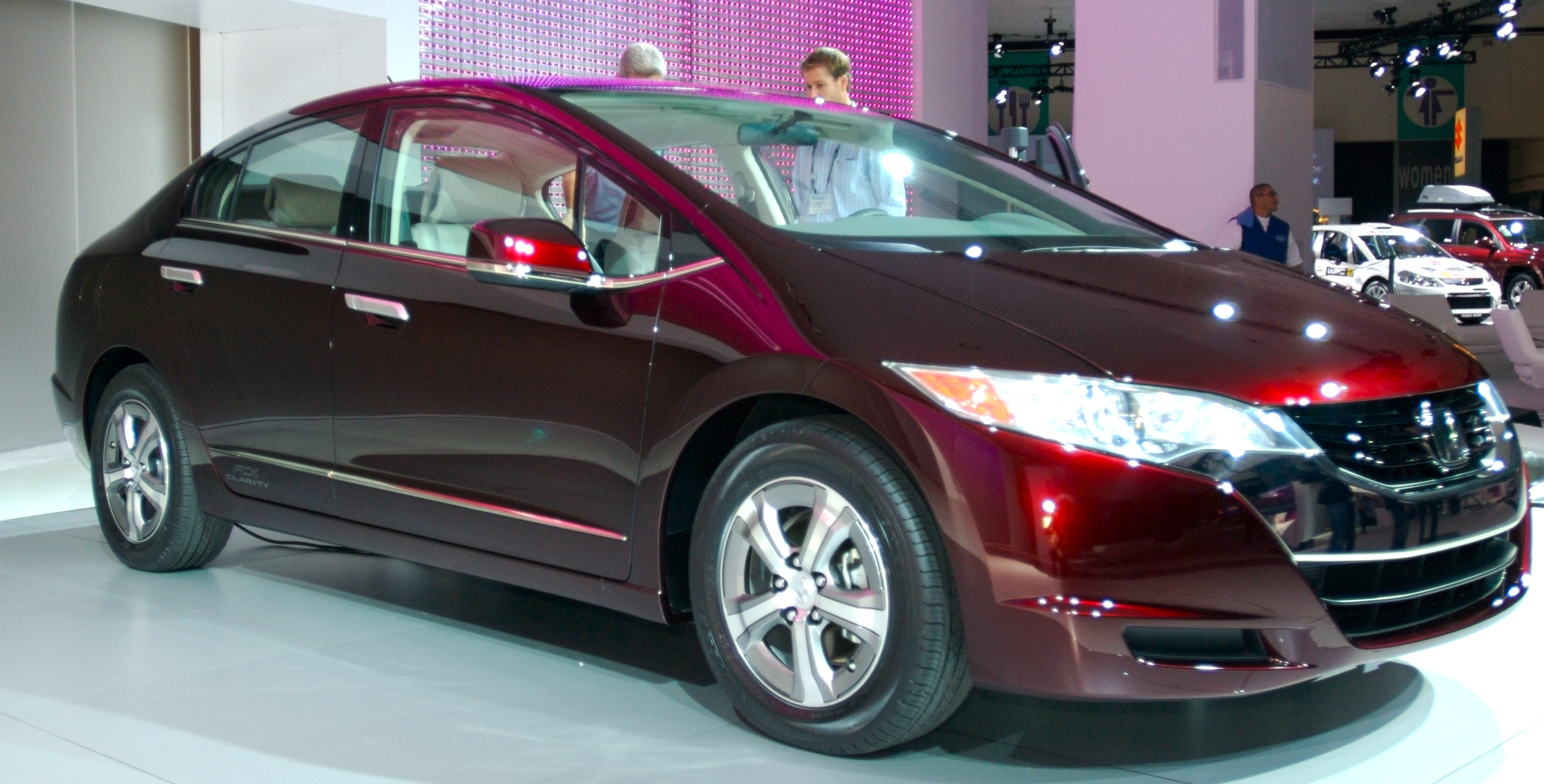 This is an image of the FCX Clarity Fuel Cell taken by BBQ Junkie at the 2007 Los Angeles Auto Show, shortly after the introduction of the vehicle on Wednesday November 14th, 2007. This photo is for the Honda FCX Clarity article.